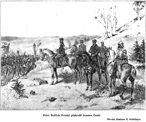 Prince Frederick Charles of Prussia crossing the borders of Bohemia on June 23, 1866, to participate in Austro-Prussian War. An illustration to book Válka z roku 1866 v Čechách, její vznik, děje a následky (1866 War in Bohemia - its origins, events and consequences) by Servác Heller (1845 - 1922)